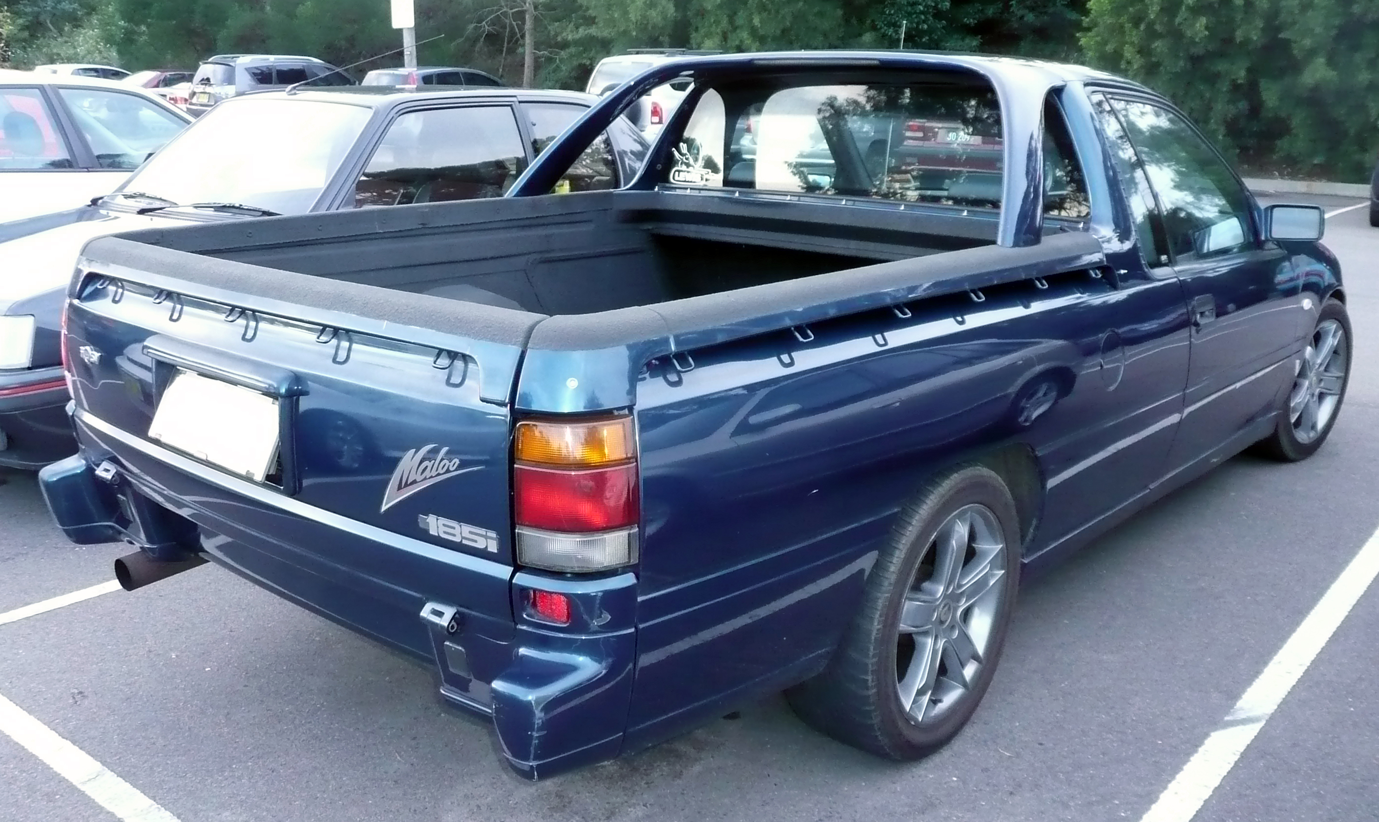 1995–1998 HSV Maloo (VS) 185i utility (with a 1998–2000 HSV Maloo (VS III) side turn signals, and 2000–2001 HSV GTS (VX) alloy wheels. Photographed in Kirrawee, New South Wales, Australia.